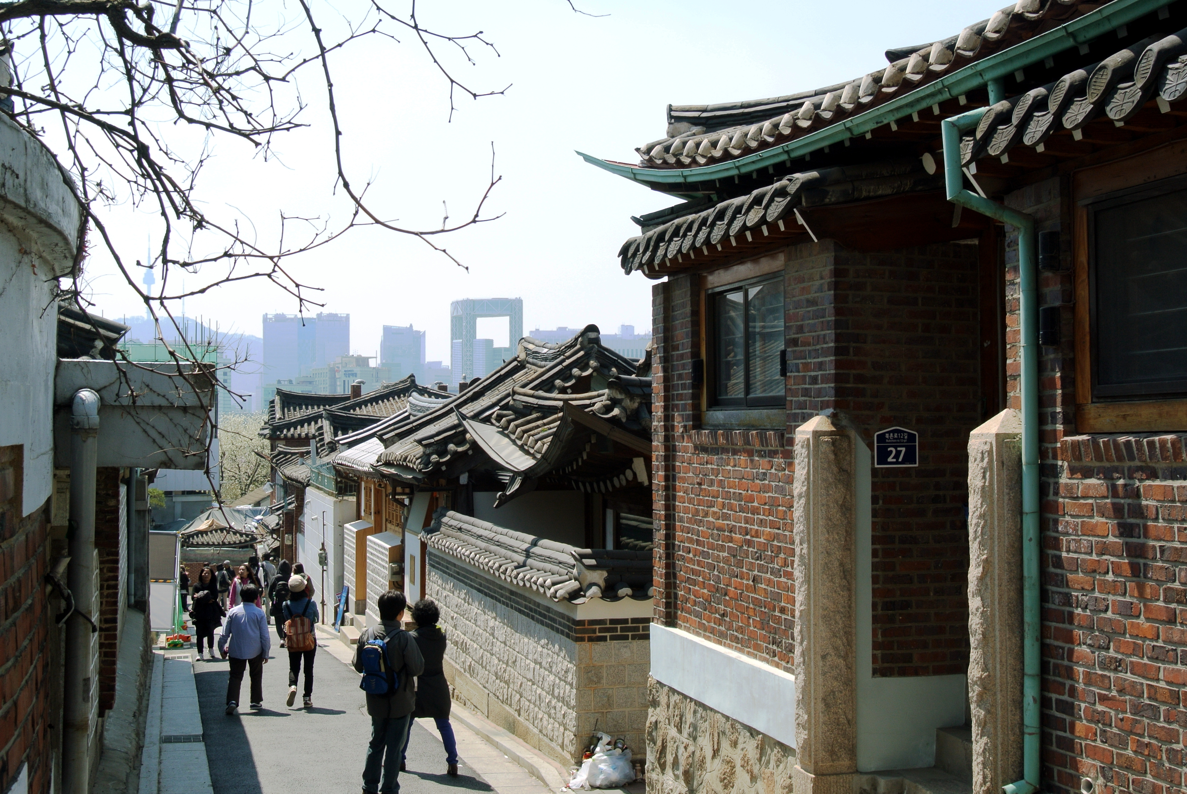 Bukchon Hanok village and modern building in the background